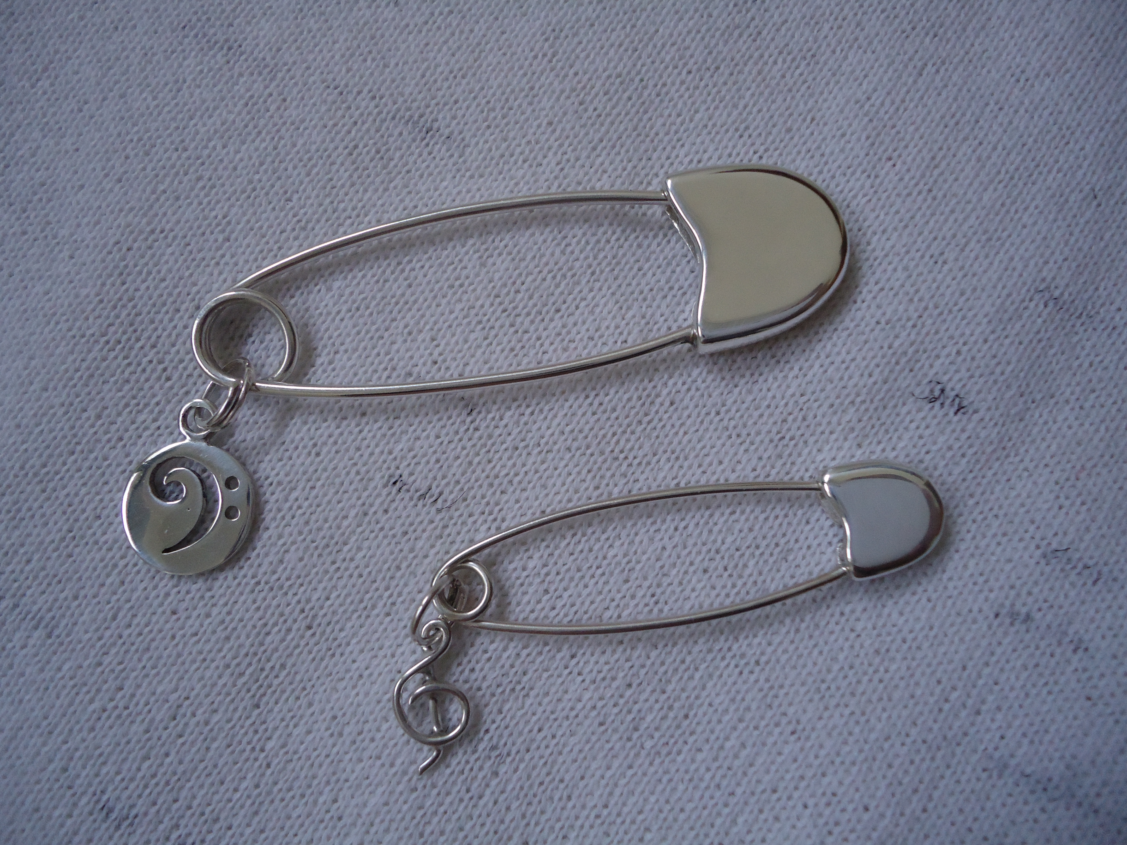 950-silver safety pins. Made by Mauro Cateb, Brazilian jeweler.